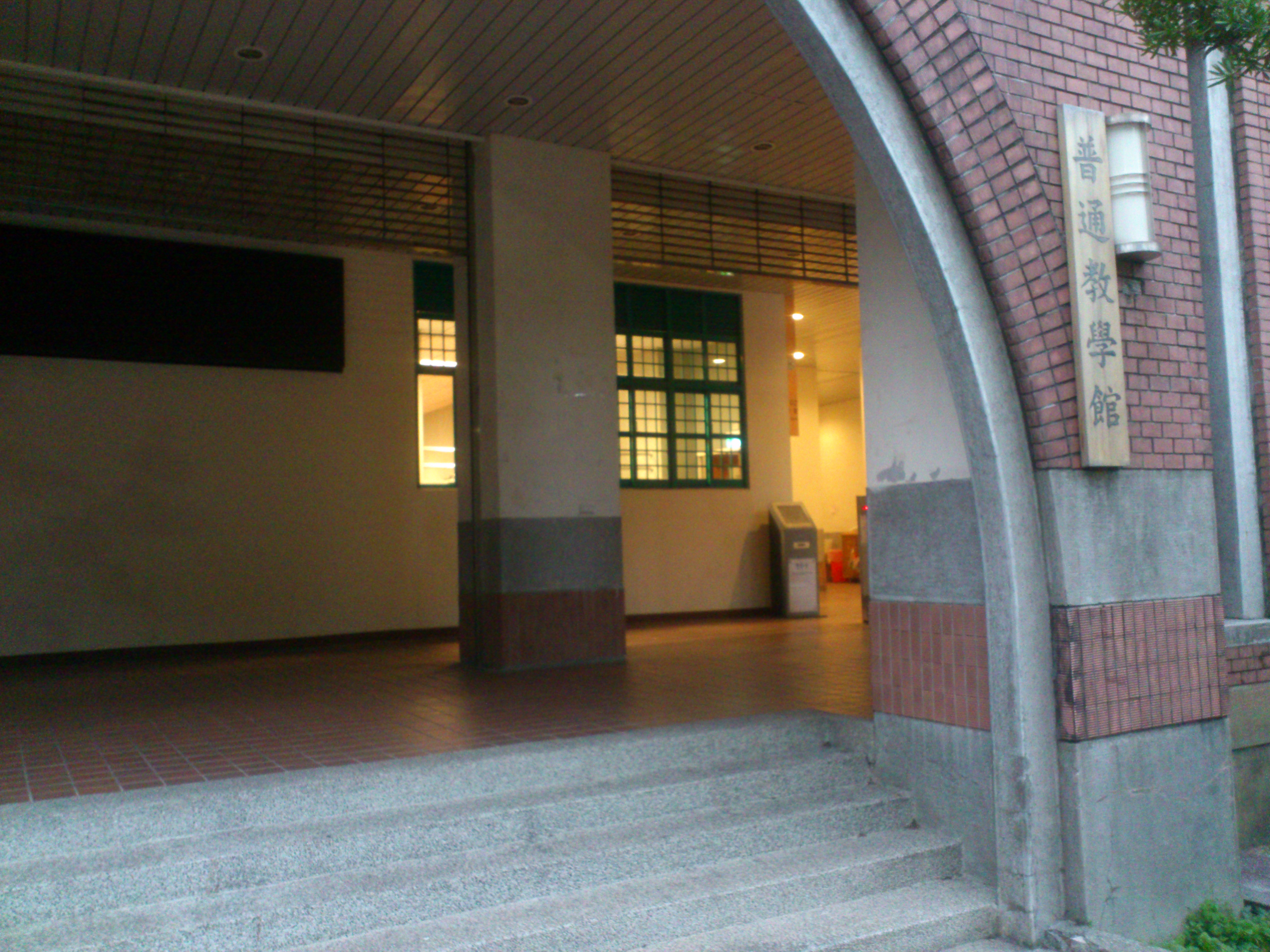 國立臺灣大學普通教學館正門